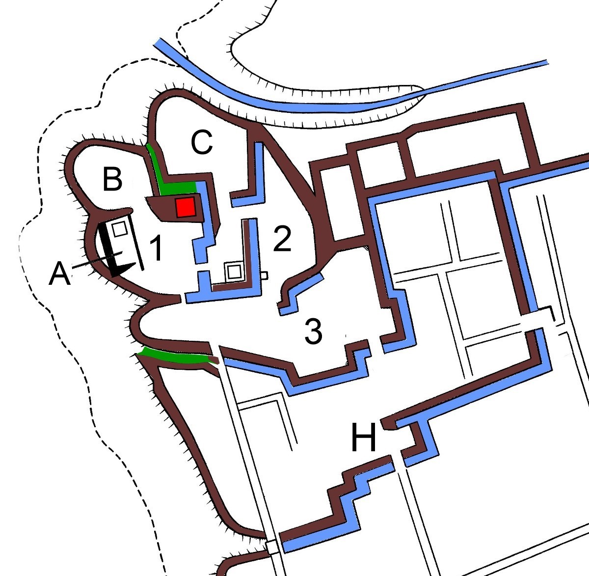 Layout of old Numata castle